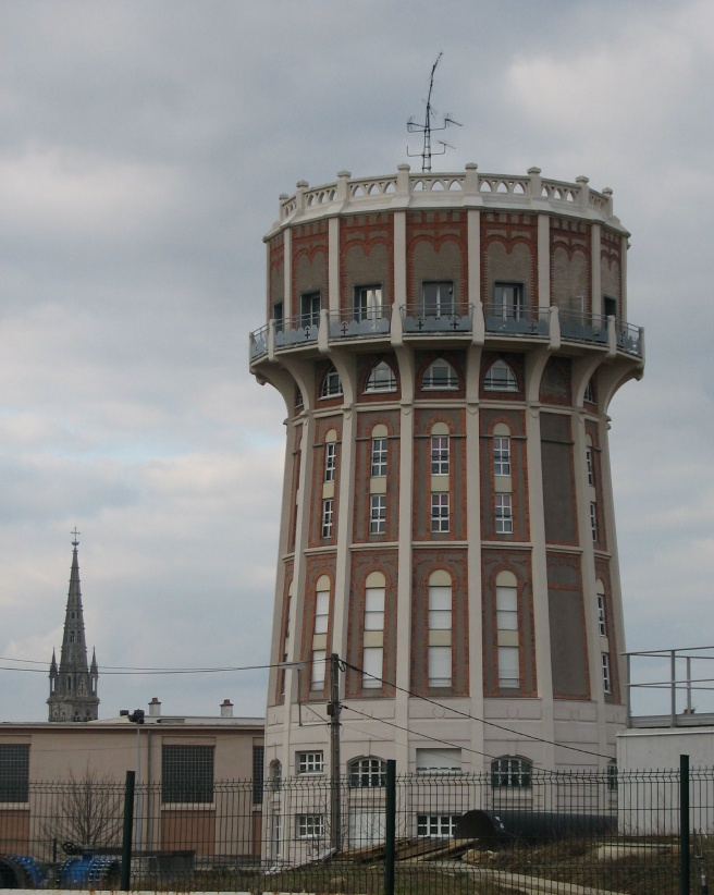 Saint-Charles former water tower in Vandœuvre-lès-Nancy, converted into public housing.